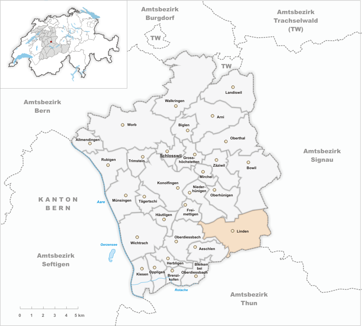 Municipality Linden